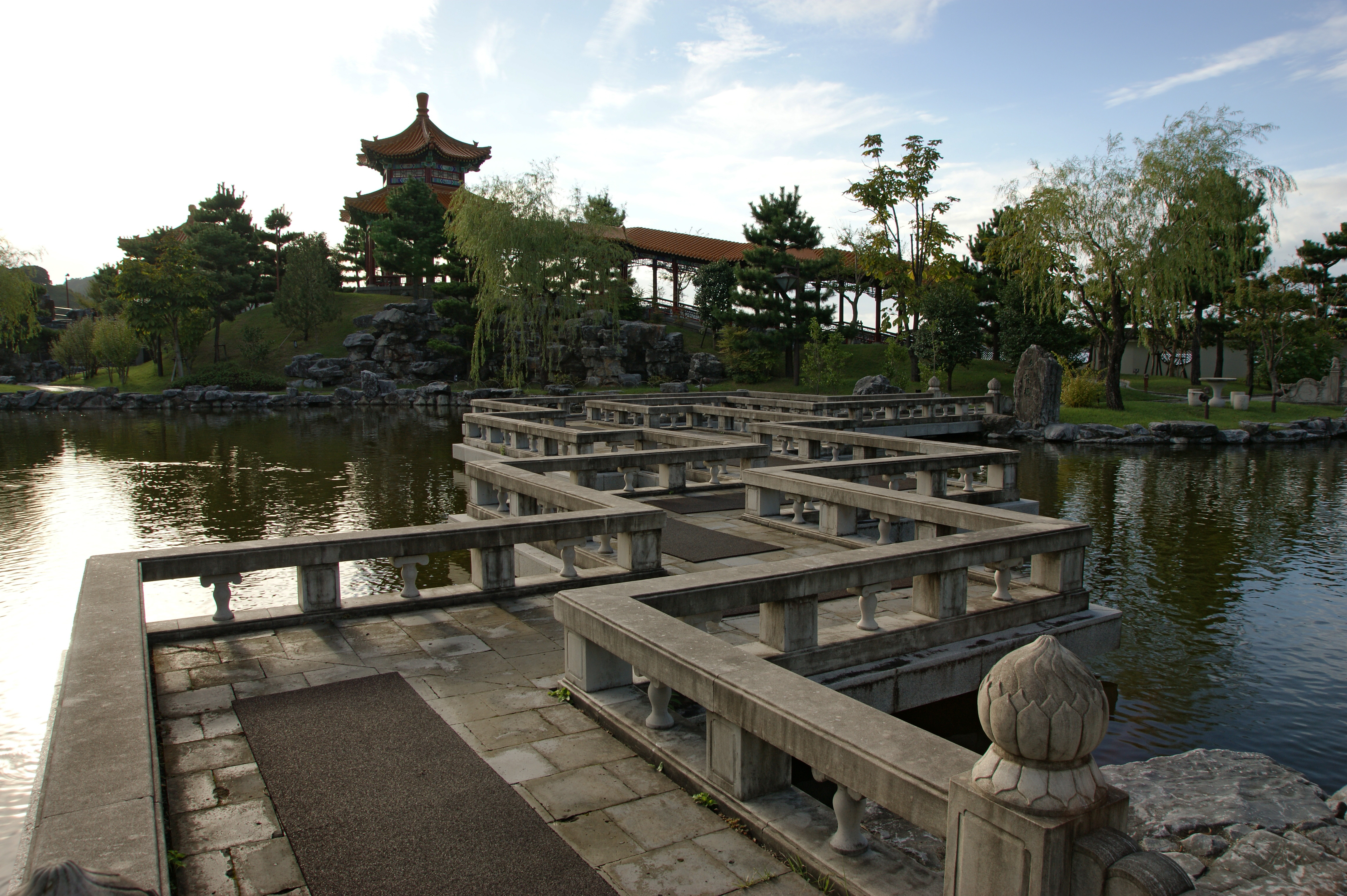 Enchoen in Yurihama, Tottori prefecture, Japan